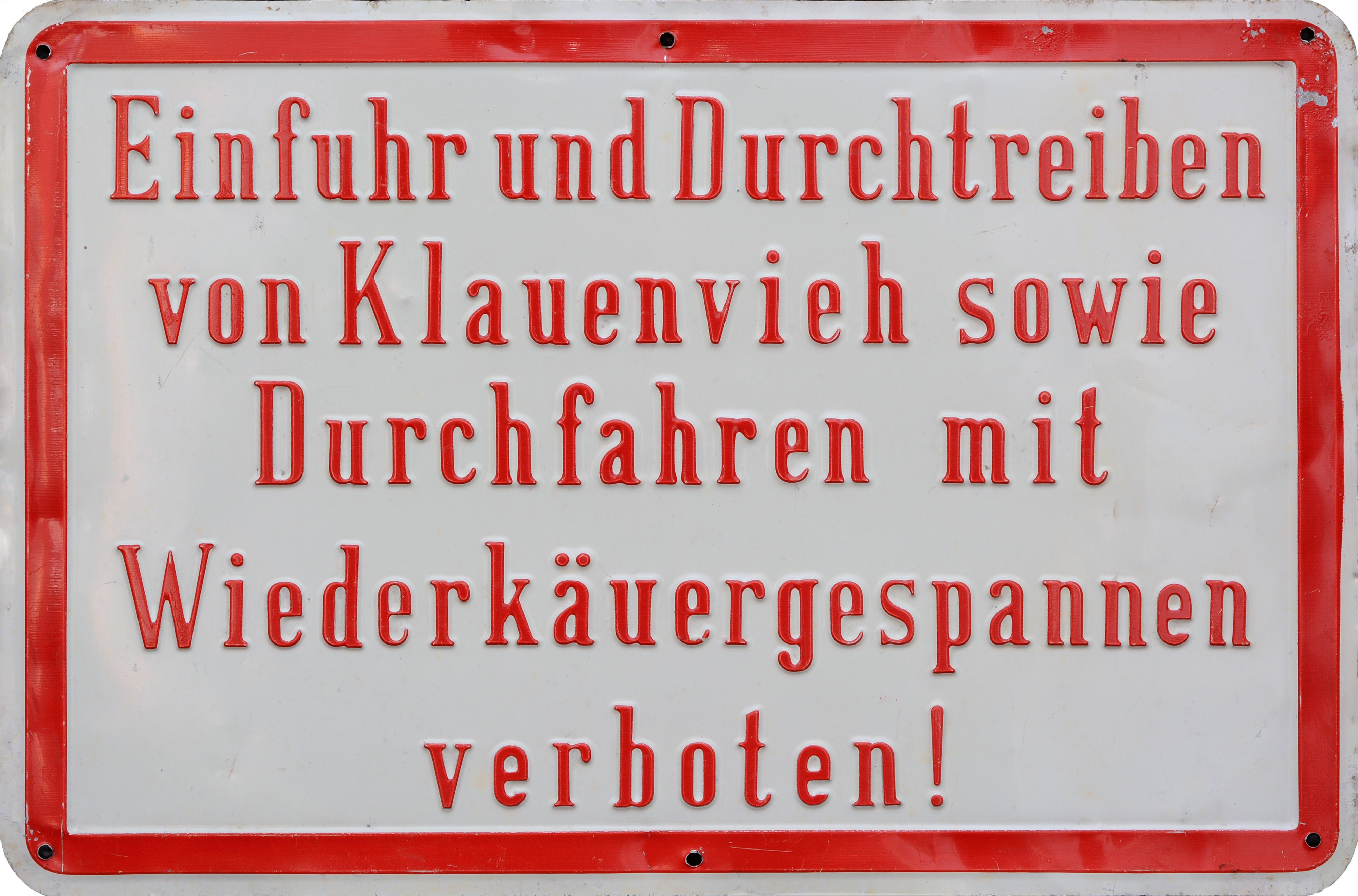 Foot-and-mouth disease sign, passage prohibited, Mannheim, Germany, 1960es, size 50 x 33 cm